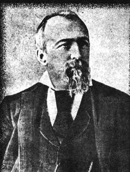 Alejo Peyret